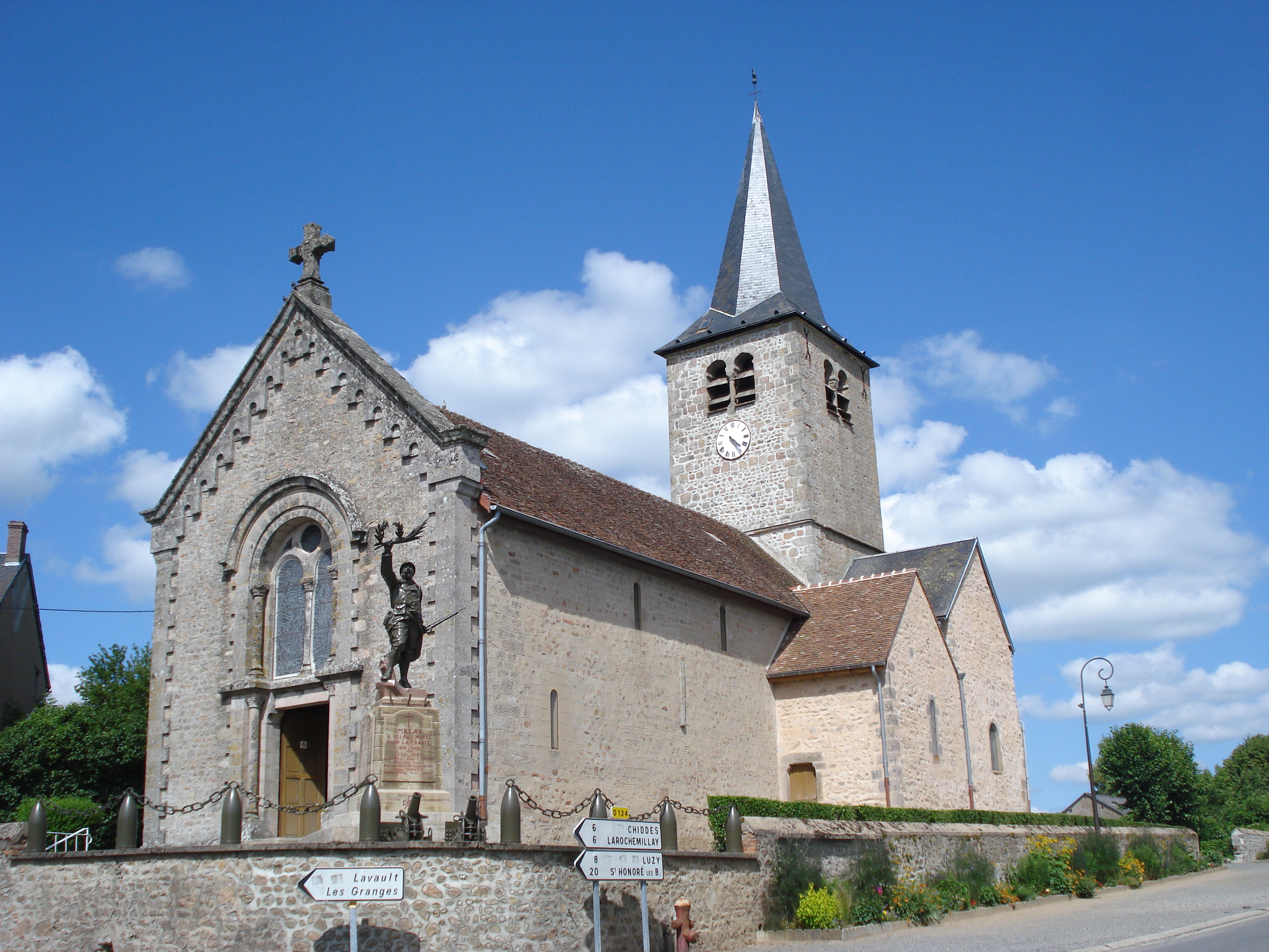 Millay (Nièvre, Fr), église et monument aux morts.